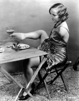 Frances O'Connor, derived from the 1932 movie Freaks